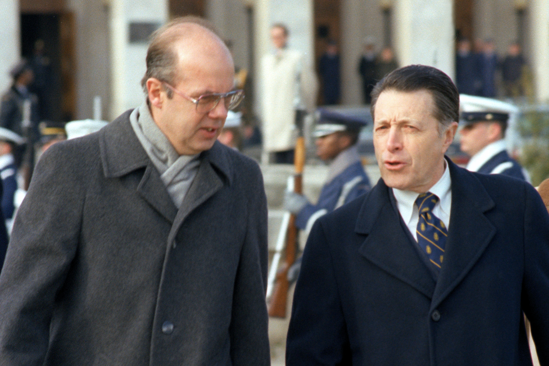 Secretary of Defense Caspar W. Weinberger hosts an Armed Forces Full Honors Arrival Ceremony for the Minister of Defense of the Netherlands outside the Pentagon.